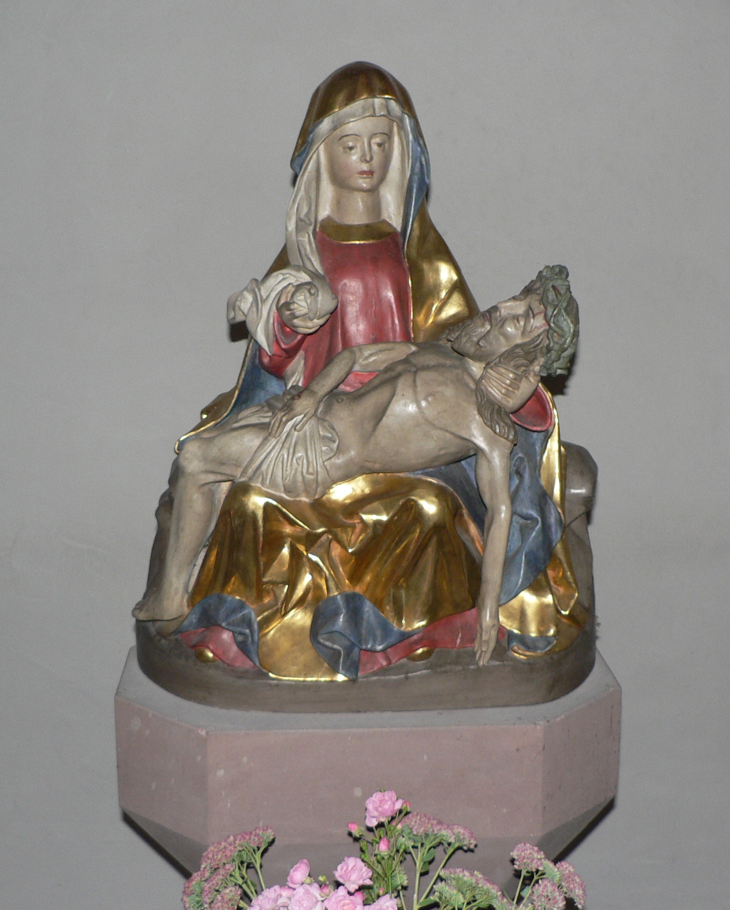 Pietà in St. Nicholas' church in Germete (Germany). Context: File:St. Nikolaus Germete Pietà (1).jpg.